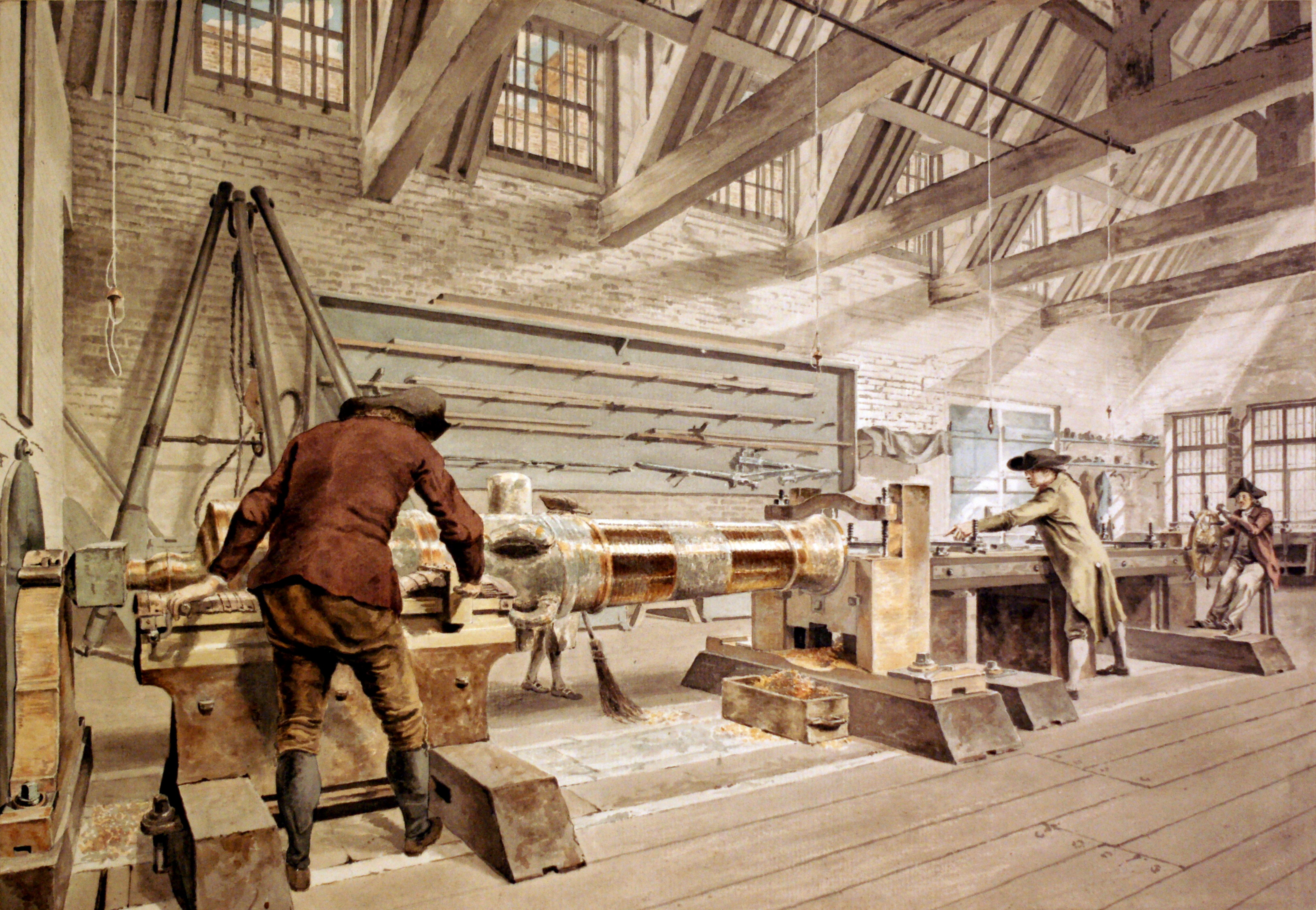 Exact Drawing made with Camera Obscura of Horizontal Boring Machine by Jan Verbruggen in Woolwich Royal Brass Foundary approx 1778 (drawing 47 out of set of 50 drawings).